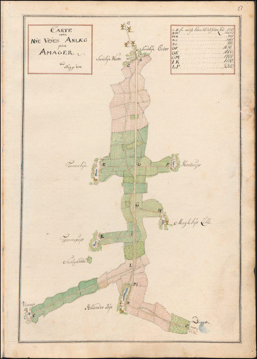 Nummer 27 i kortbog med 28 kort fremstillet til borgmester Hersleb.